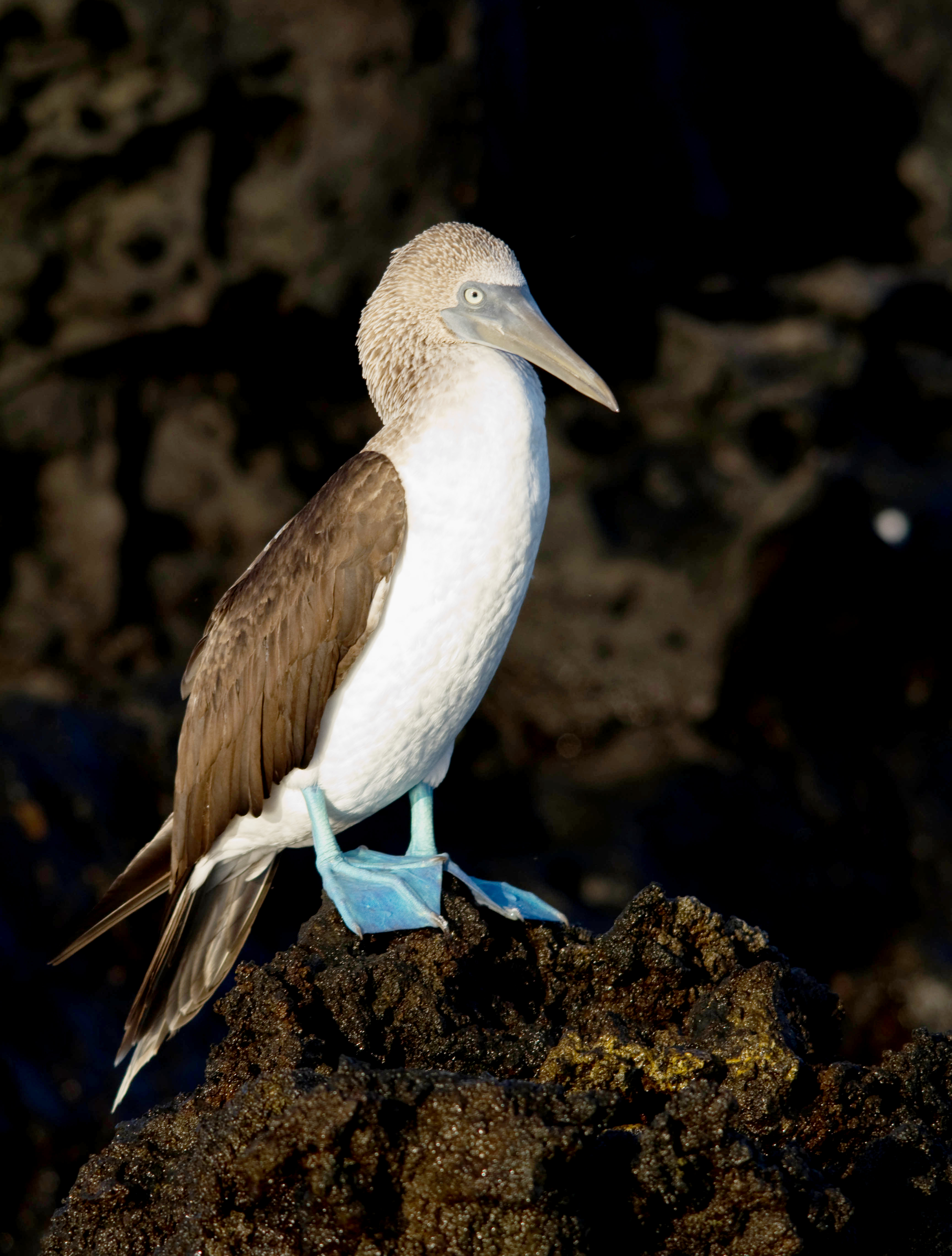 Blue-footed Bobby